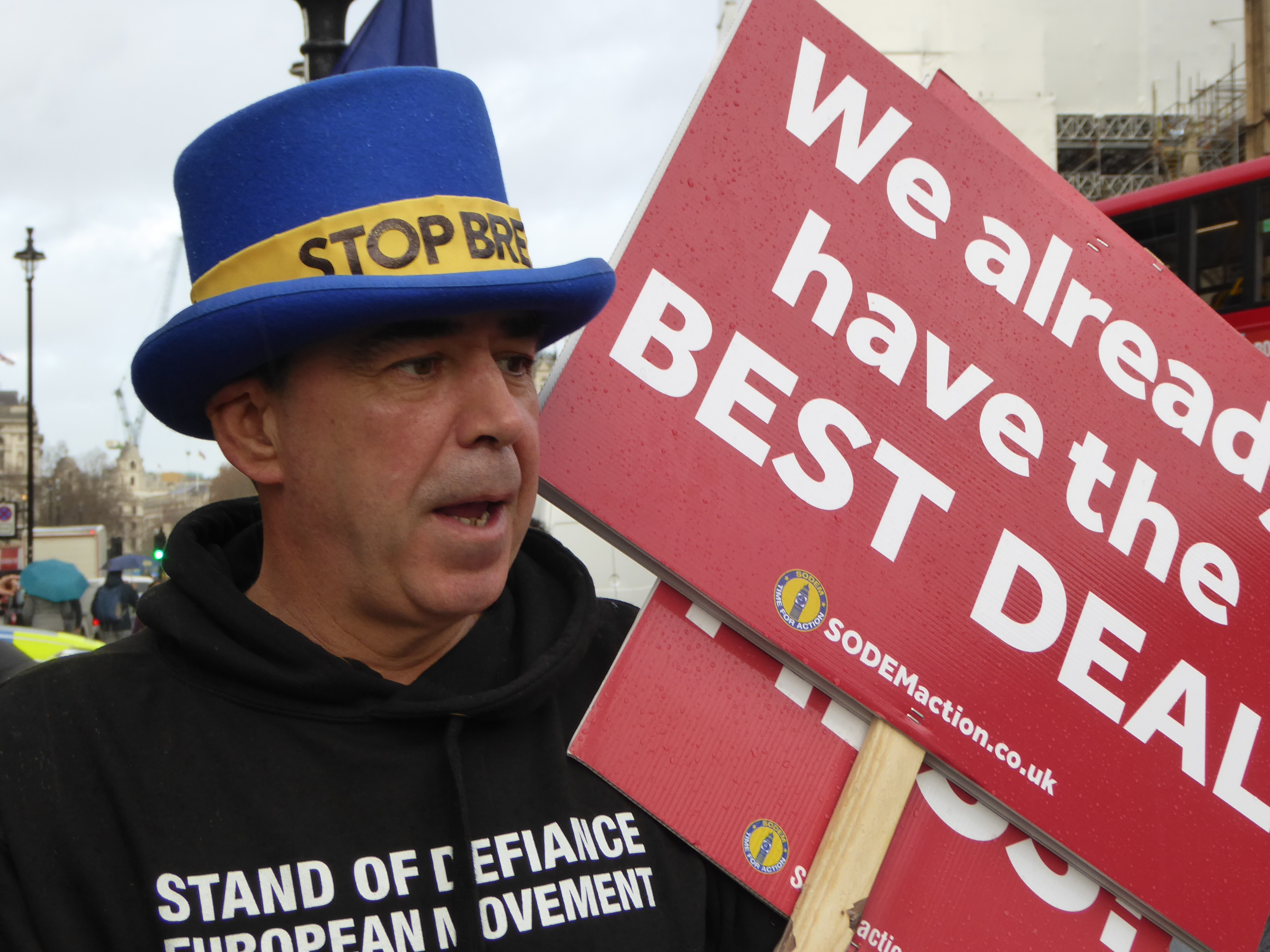 Steve Bray, the democracy activist outside Parliament on a very wet December day. Steve can be contacted to confirm he is happy for his image to be used , through the SODEM website.